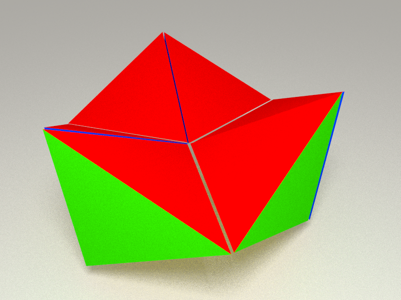 This is a picture of a kaleidocycle created using Blender.